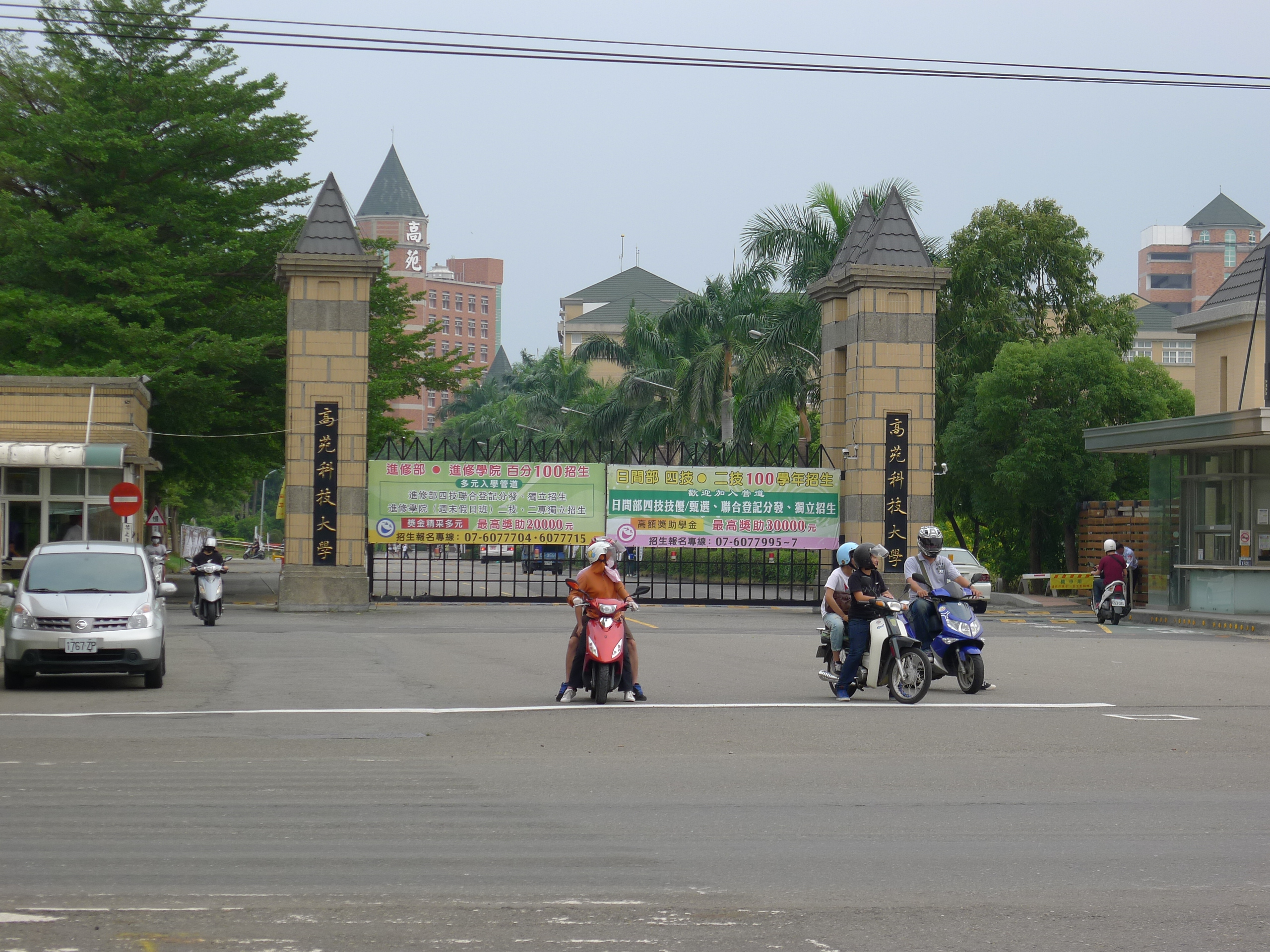 The view of Kao Yuan University of Technology at the main gate.中文（中国大陆）: 高苑科技大学正门